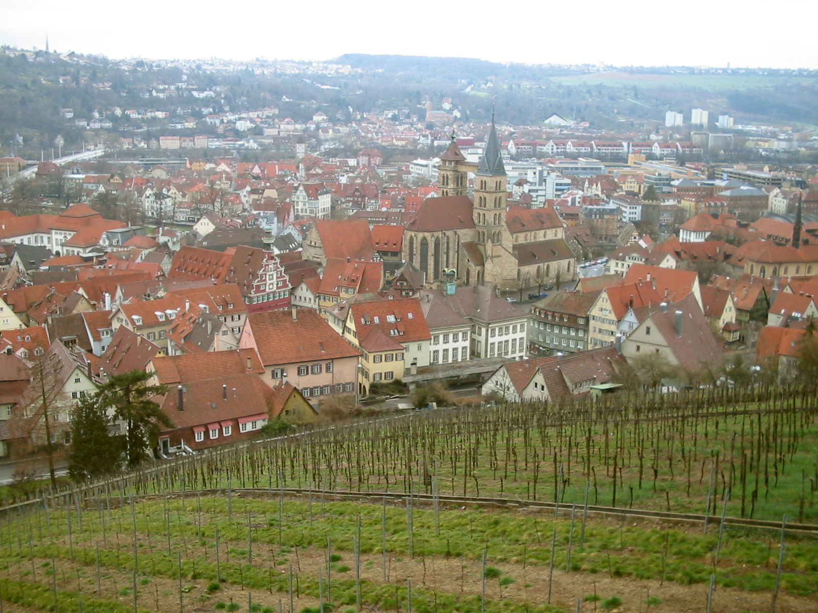 Esslingen am Neckar is a city located in Baden-Württemberg, southern Germany.